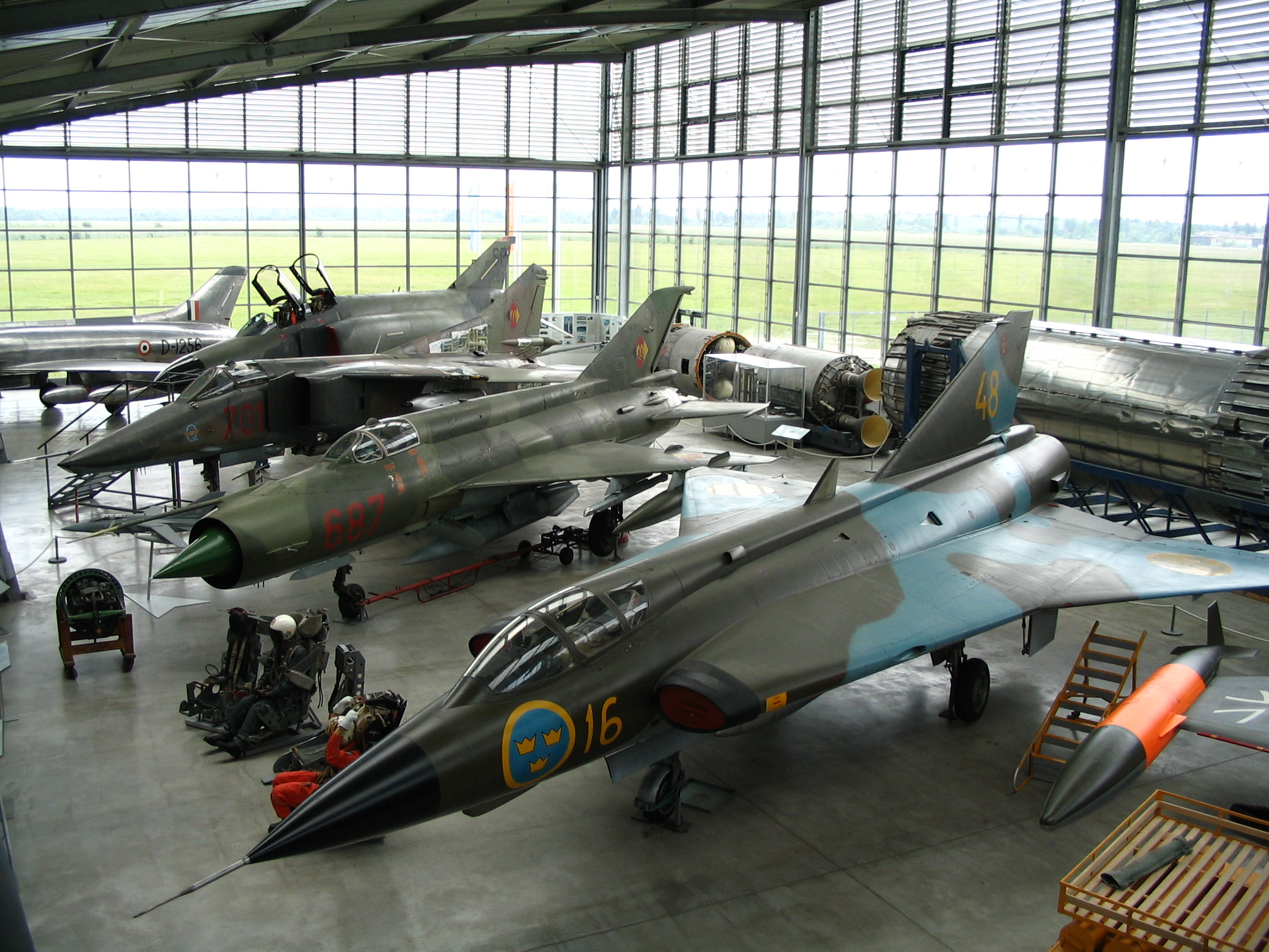 Aircraft models visible (front to back): Saab J35A Draken, MiG-21(SM, M or MF), MiG-23BN, F-4 Phantom II, HAL Marut.